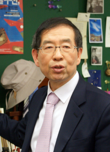 Crop of File:Parkwonsoon.jpg